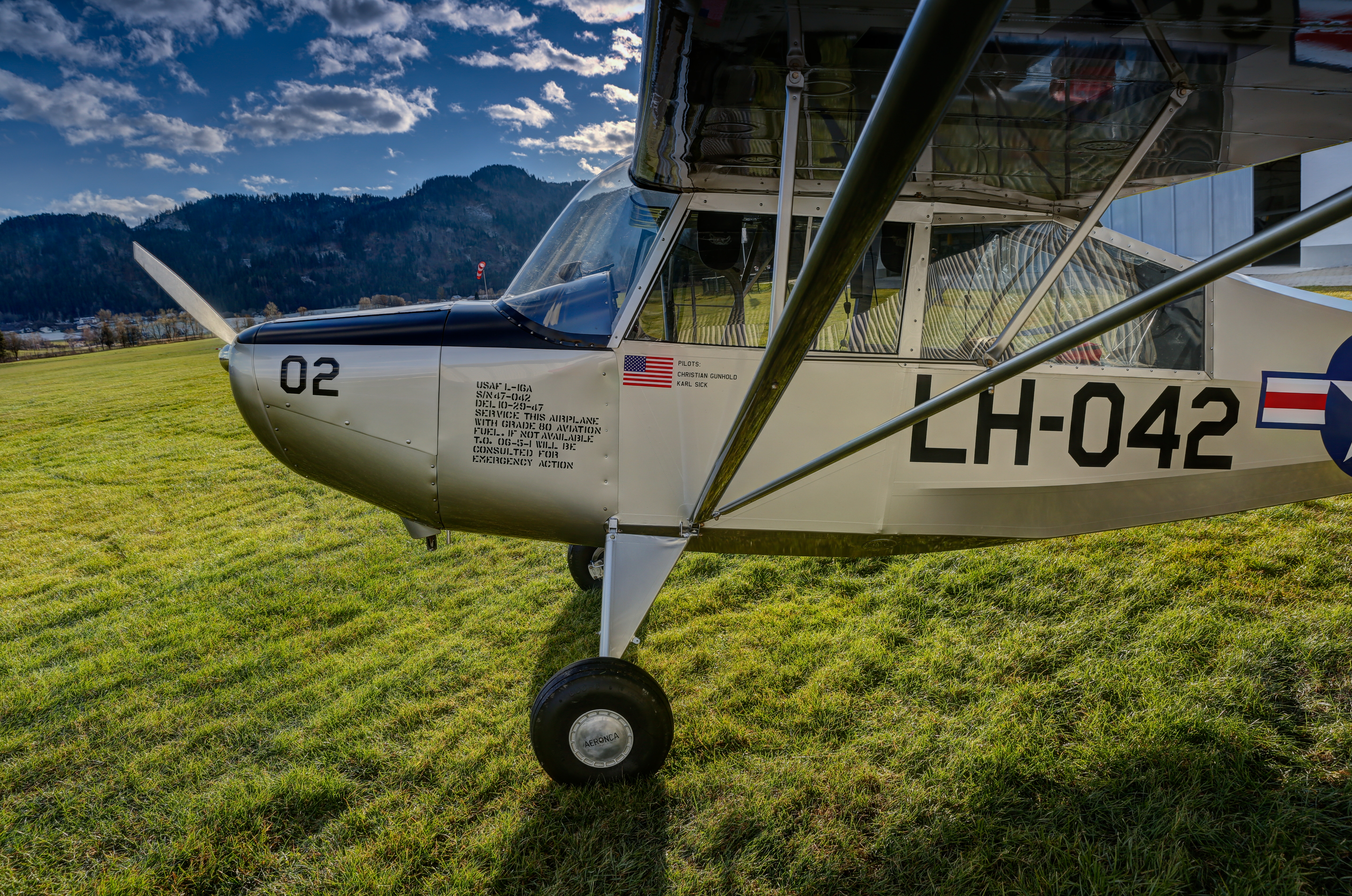 Aircraft (Light Aircraft) Aeronca L-16 7BCM at the airfield of Feldkirchen in Carinthia / Austria / EU. This fully restored[2] 1947 built aircraft was a liaison aircraft for the US Army, as they were mainly used in the Korean War. It is a militarized version of the Aeronca Champion.